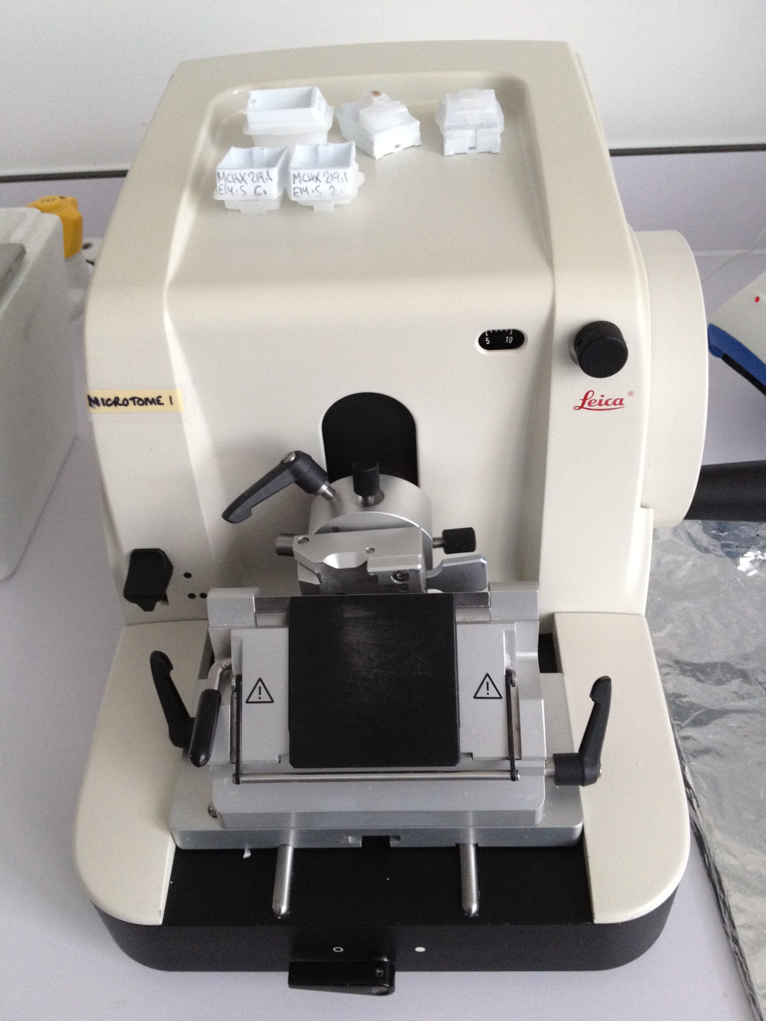 A microtome, manufactured by Leica, used for cutting sections from paraffin embedded biological tissue. Taken at the Wellcome Trust Sanger Institute